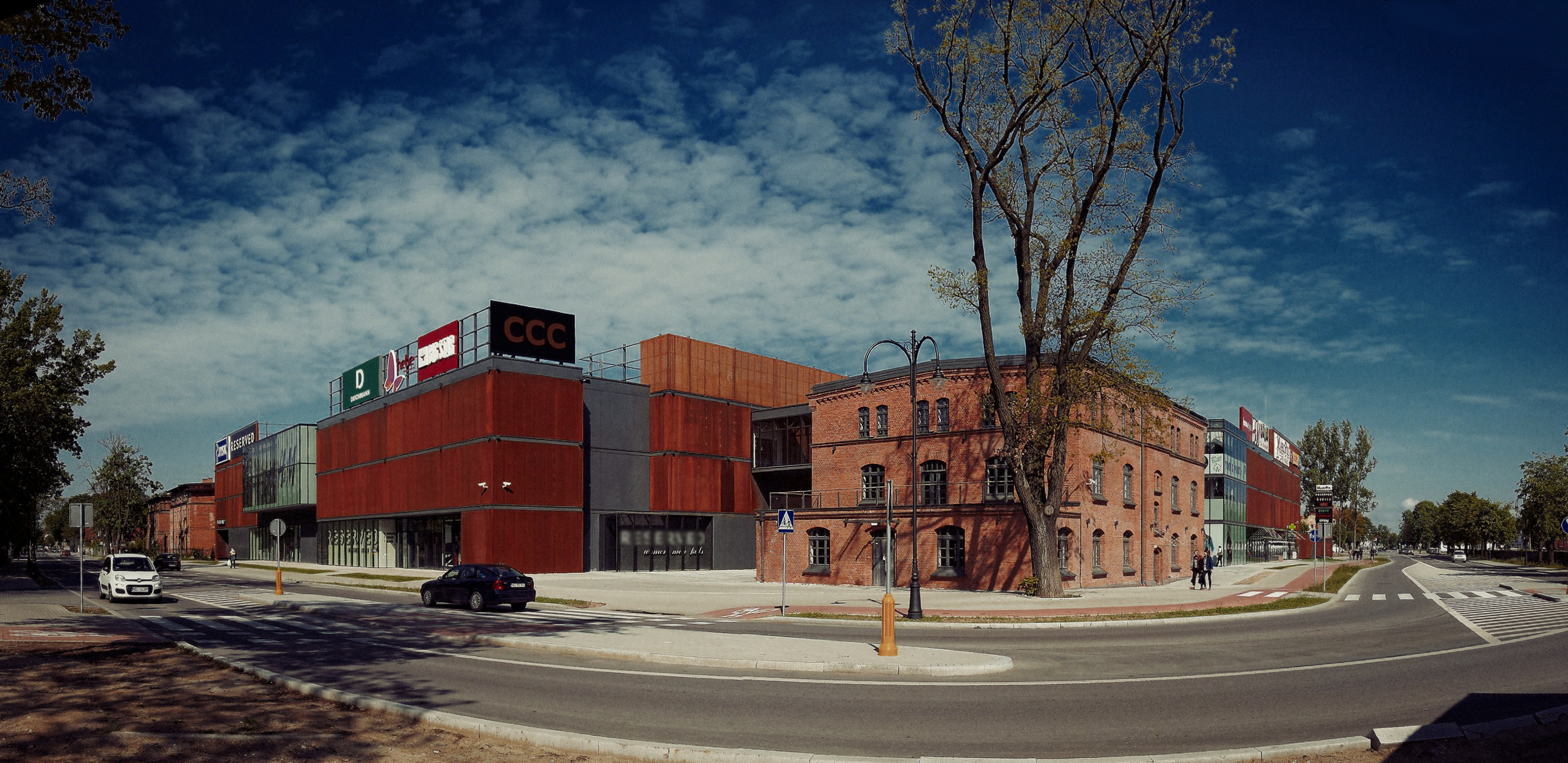 Ełk - buildings of the shopping centre "The Gate of Masuria" - Kościuszko St. - May 2015